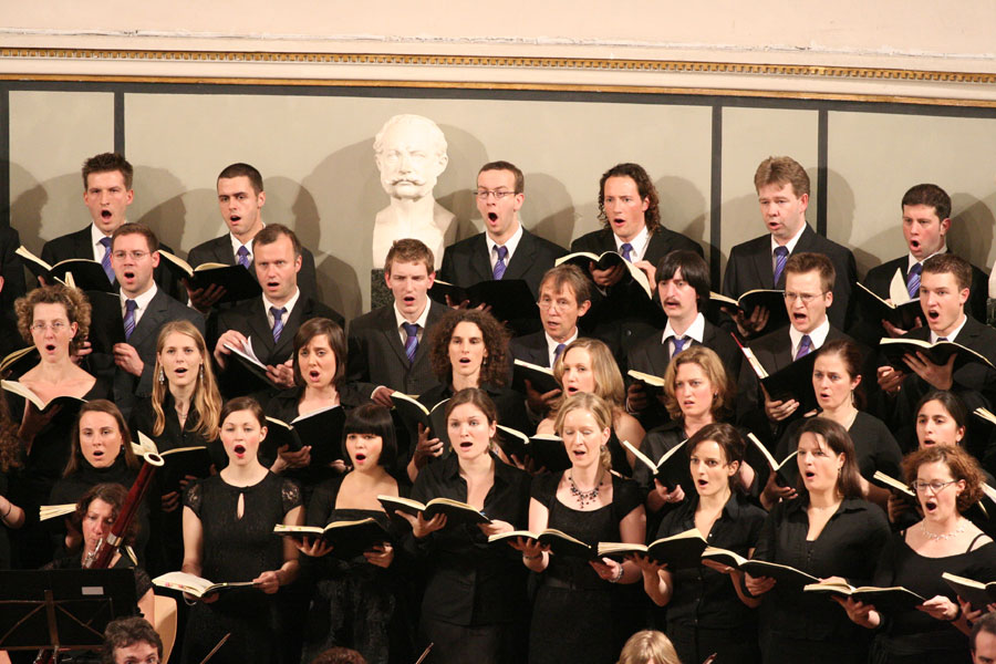 Part of Altos and Basses in the choir of the Munich University of Applied Sciences at a concert in the Great Hall of the Ludwig Maximilian University, Munich